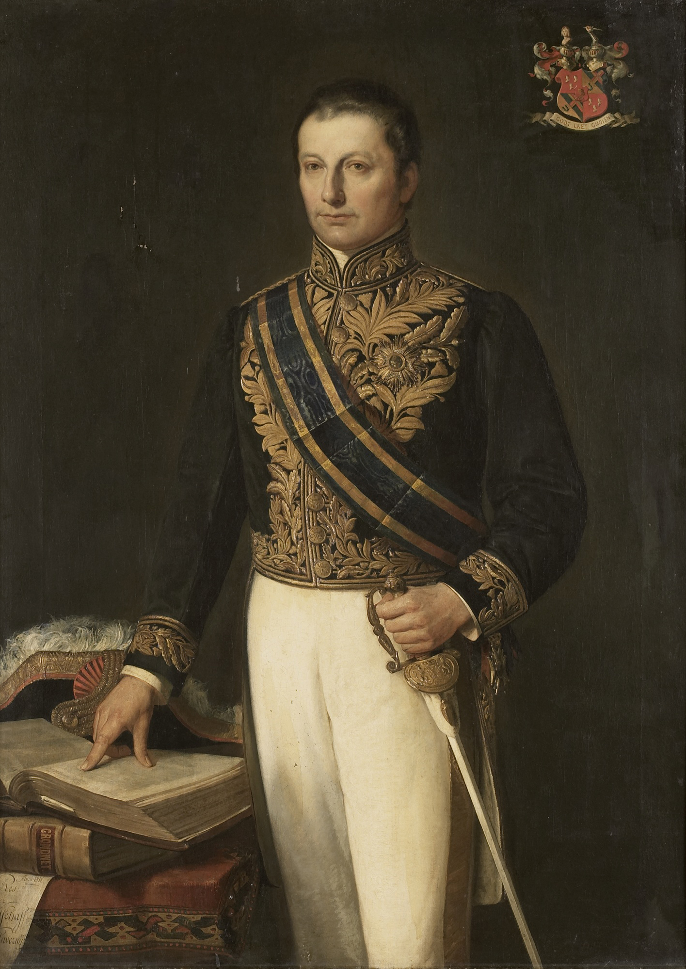 Depicted person: Cornelis Theodorus Elout